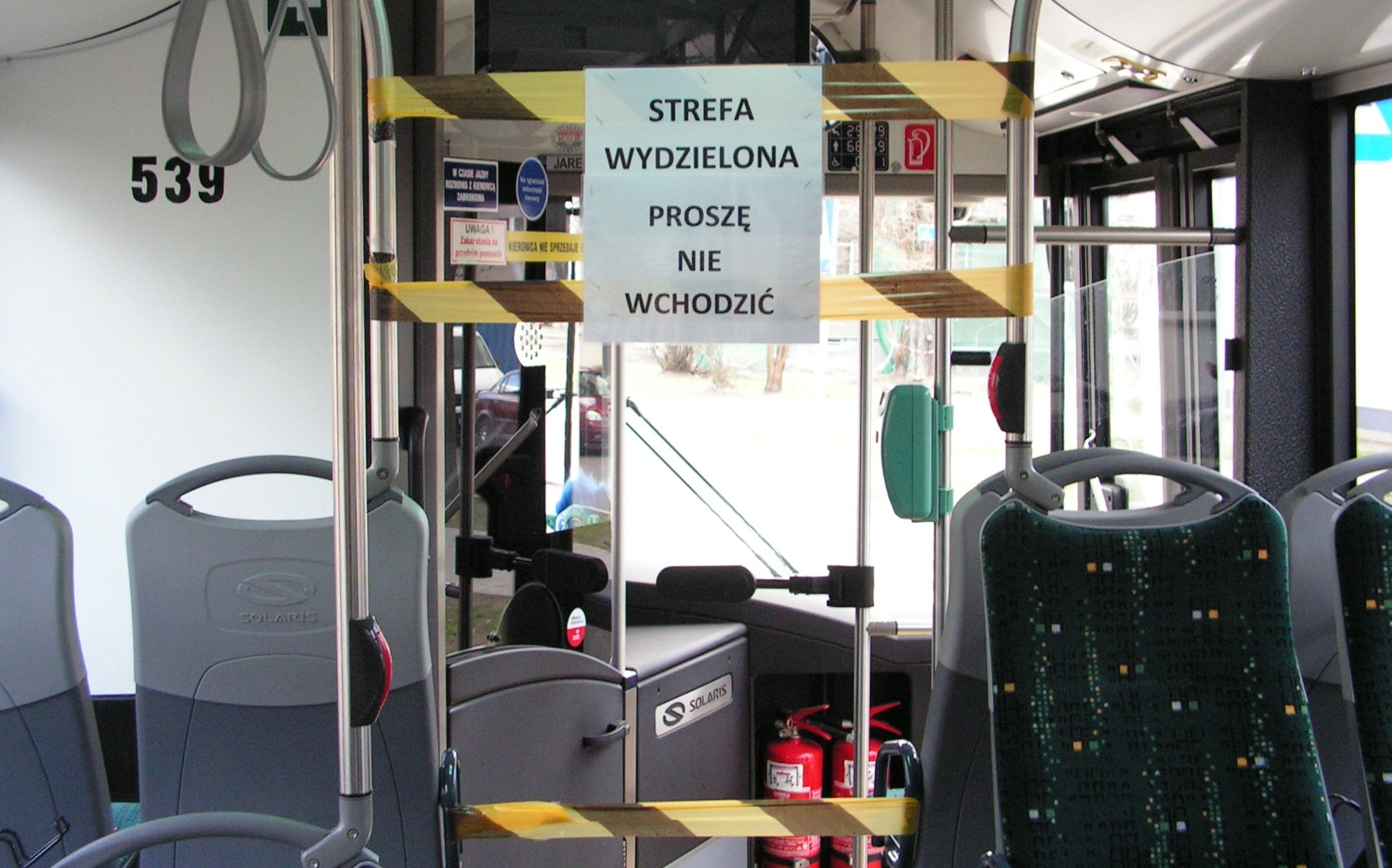 Separated zone for a driver in MPK bus in Włocławek, becose of risk of coronavirus infection.